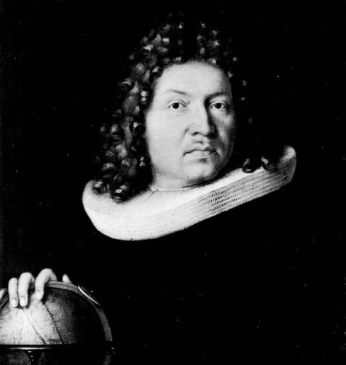 Jakob Bernoulli (1654–1705) Mathematiker und Physiker